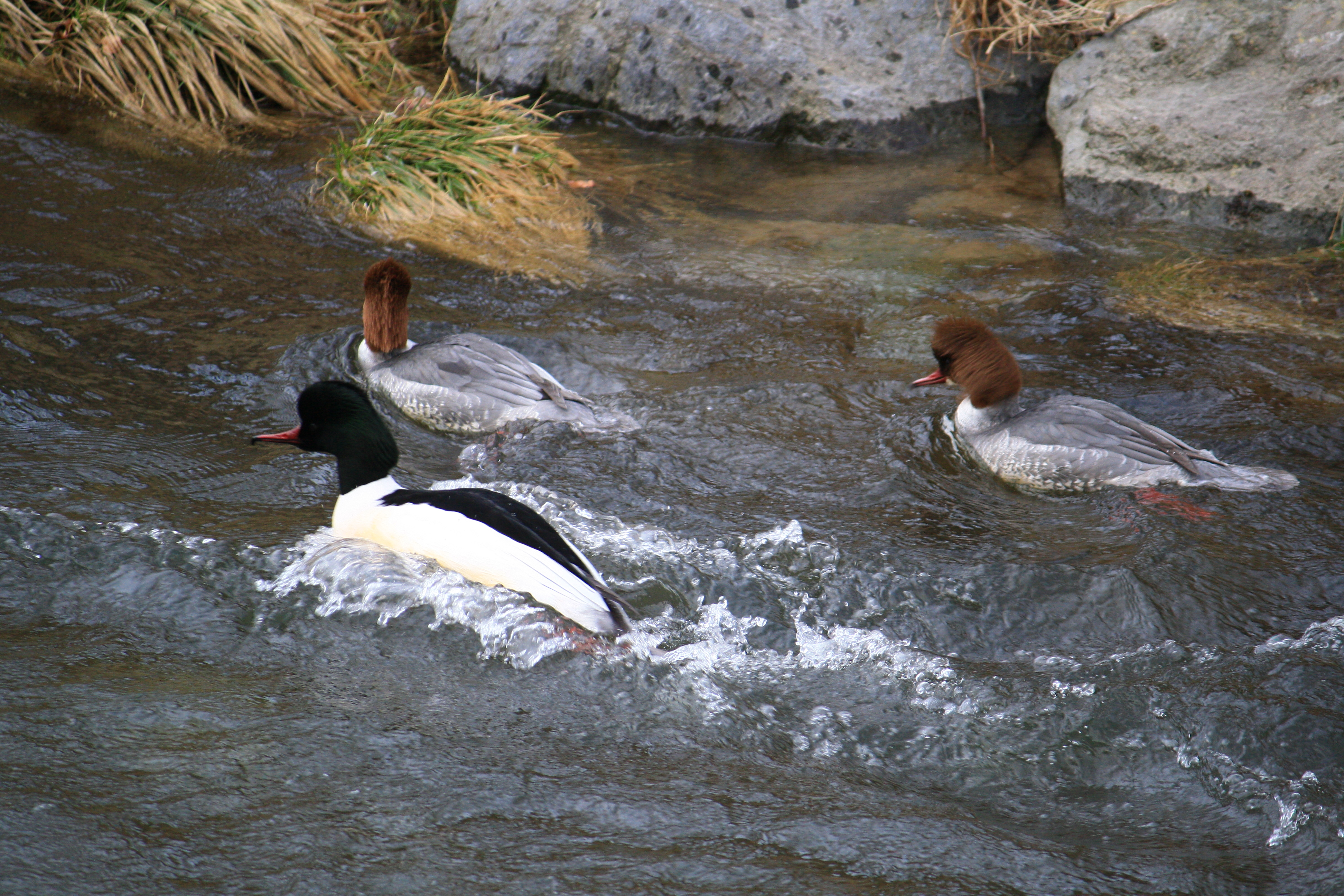 Jona river in Jona (SG)